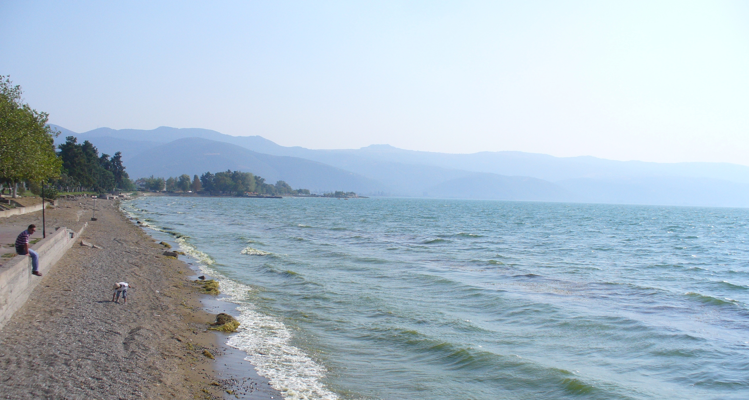 Lake Iznik.